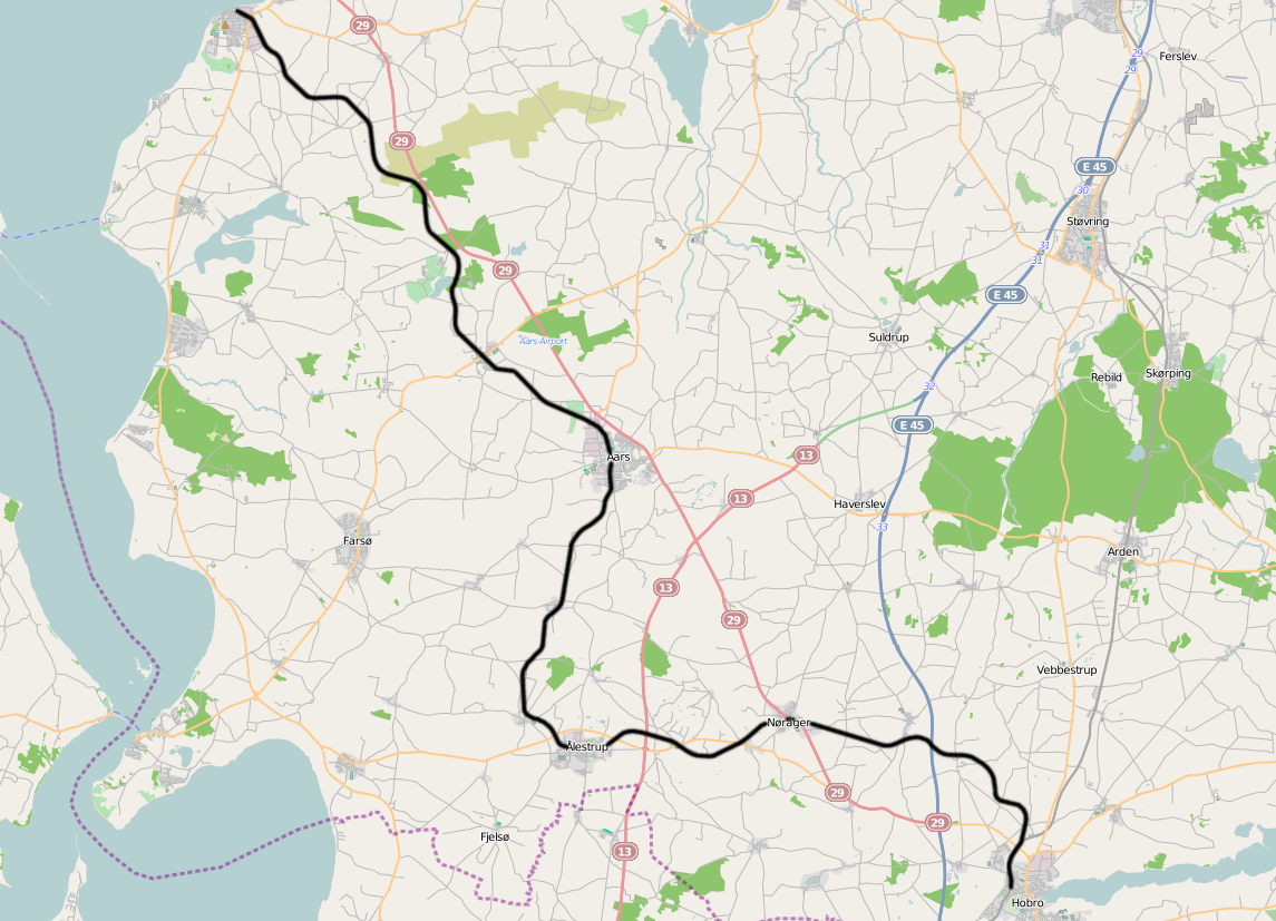 Railway line Hobro - Løgstør